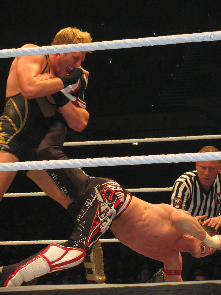 Evan Bourne & Jack Swagger @ Adelaide, South Australia 'RAW' house show on the 4th of July '11